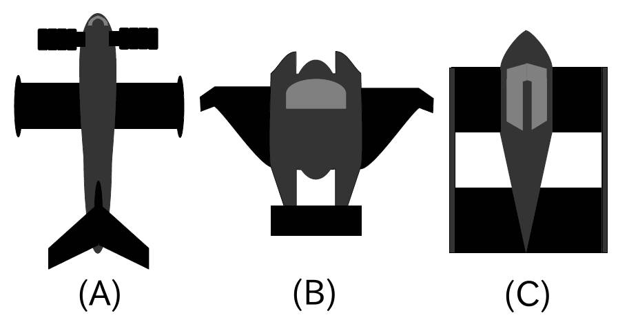 For explanation on wings of WIG The (A) represents Ekranoplan with starter jet-engines at its fore. The (B) represents Lippsich design type WIG. The (C) represents tandem flarecraft like the Jörgs.